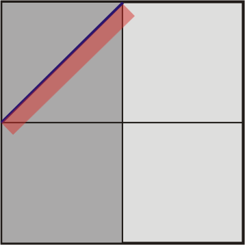 Drawing the geometric mean